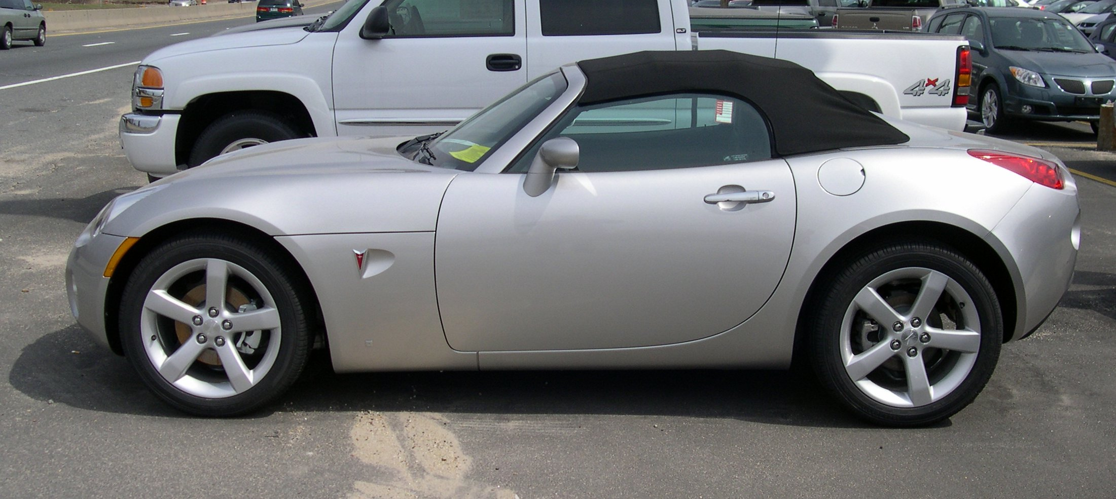 2006 Pontiac Solstice Photo by Stephen Foskett